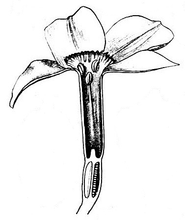 Longitudinal section through Narcissus poeticus from Richard Wettstein 'Handbuch der Systematischen Botanik', first published 1901